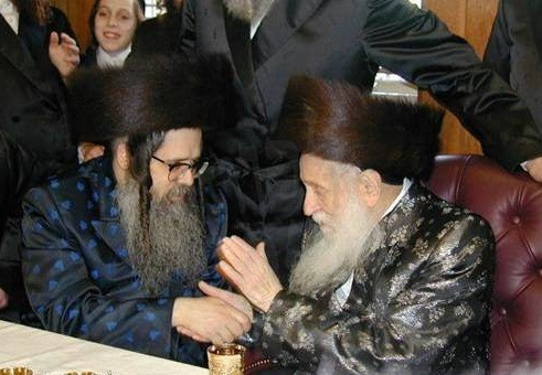 די ברך משה מיט זיין זין ר' זלמן לייב שליט"א